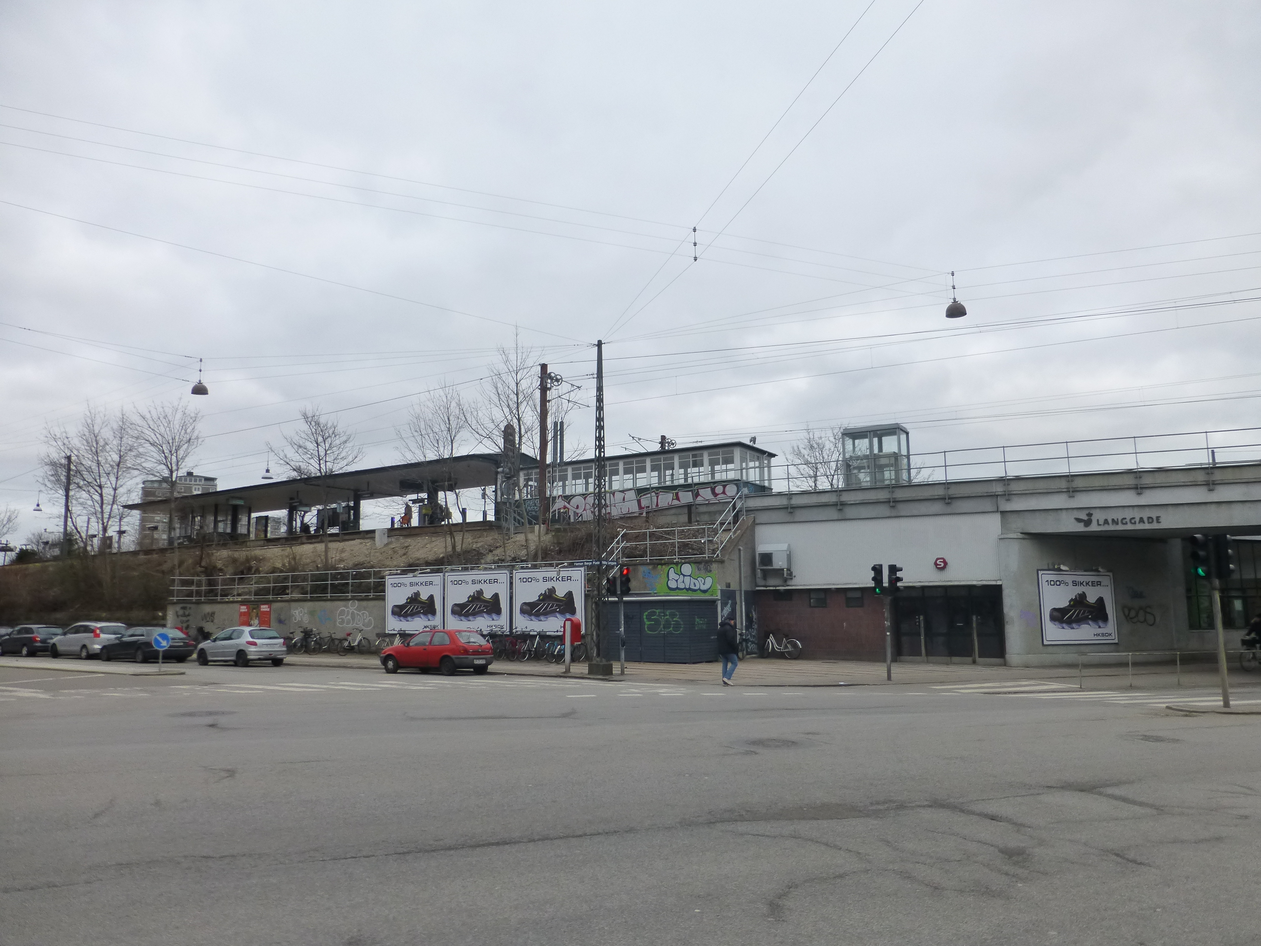 Langgade Station, a S-train station on Frederikssundsbanen in Copenhagen.